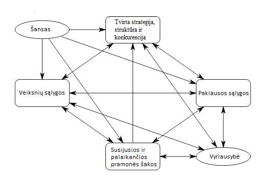 Porter diamond model